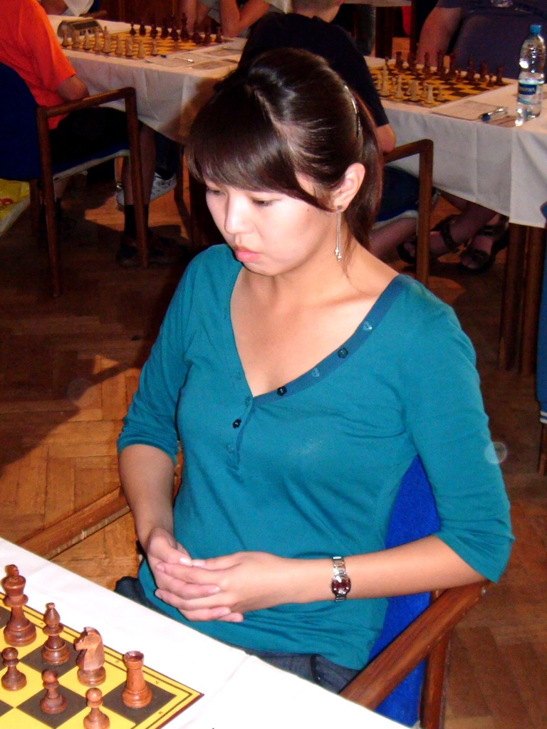 Dulamsuren Yanjindulam playing in the Olomouc Chess Summer 2010 in Olomouc (Czech Republic)